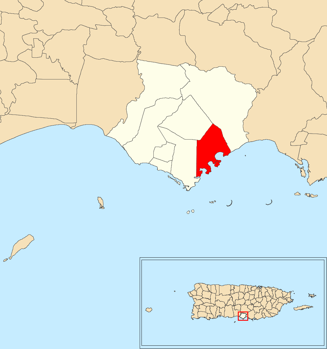 Jauca 1, Santa Isabel, Puerto Rico locator map